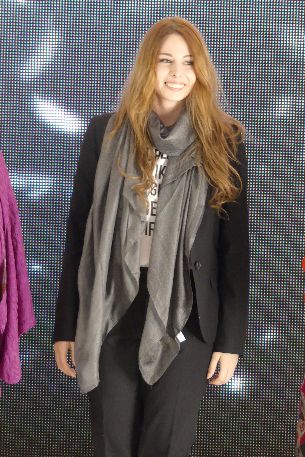 Yuriko Tiger during an interview on stage, Osaka, 2017